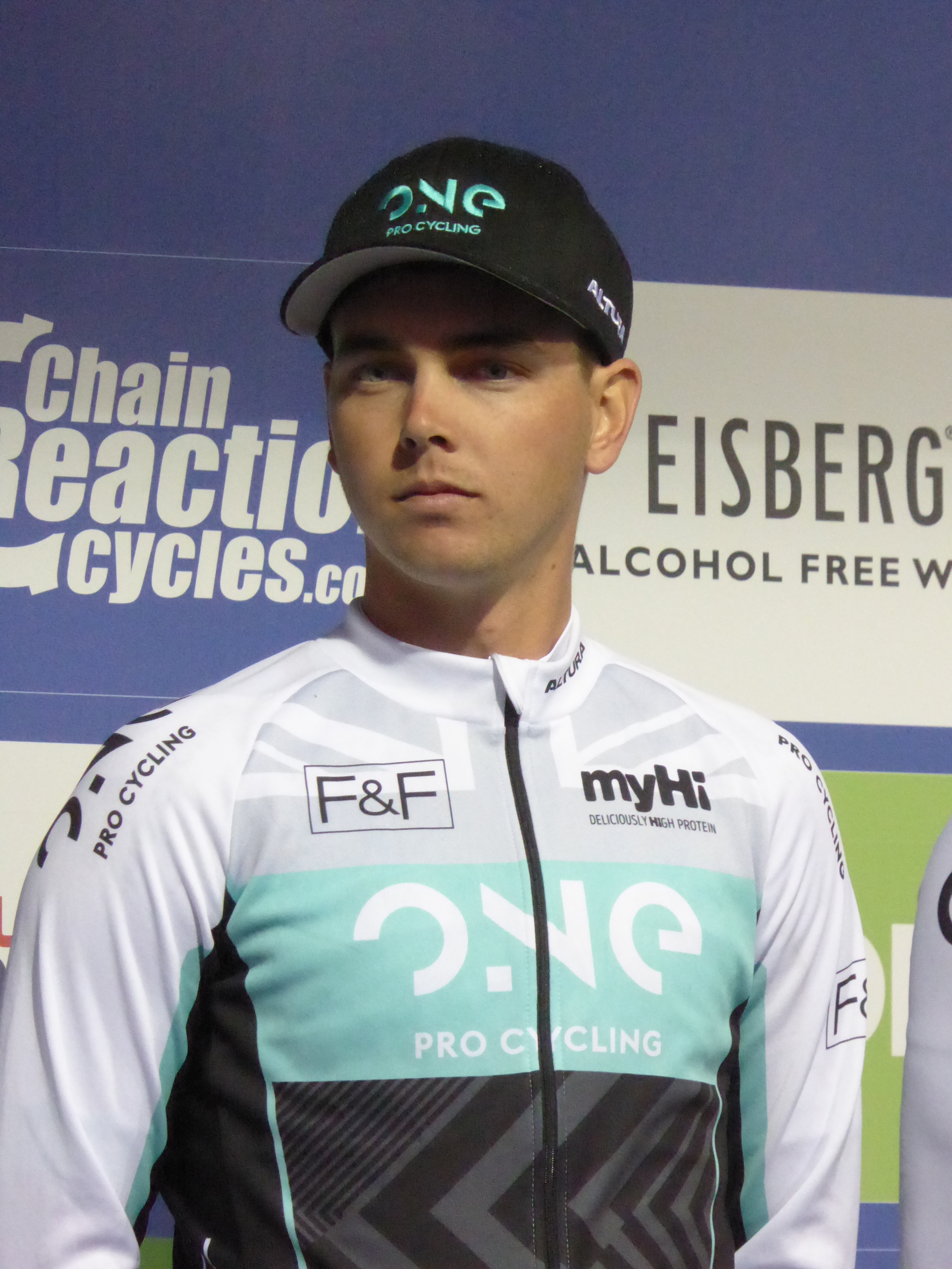 Dion Smith (ONE Pro Cycling), pictured at the 2016 Tour of Britain team presentation in Glasgow on 3 September 2016.